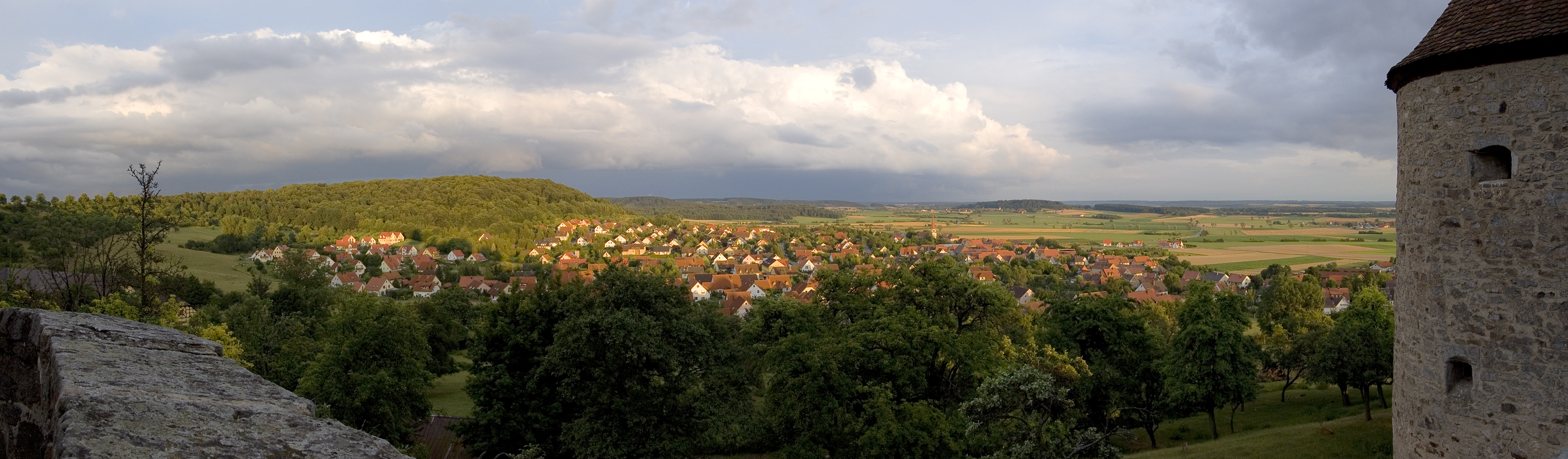 Panorama view from castle Colmberg over Colmberg, Bavaria, Germany 8 XR Di II LD